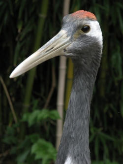 Japanese Red Crowned Crane Taken at Louisville Zoo, November 5th 2006